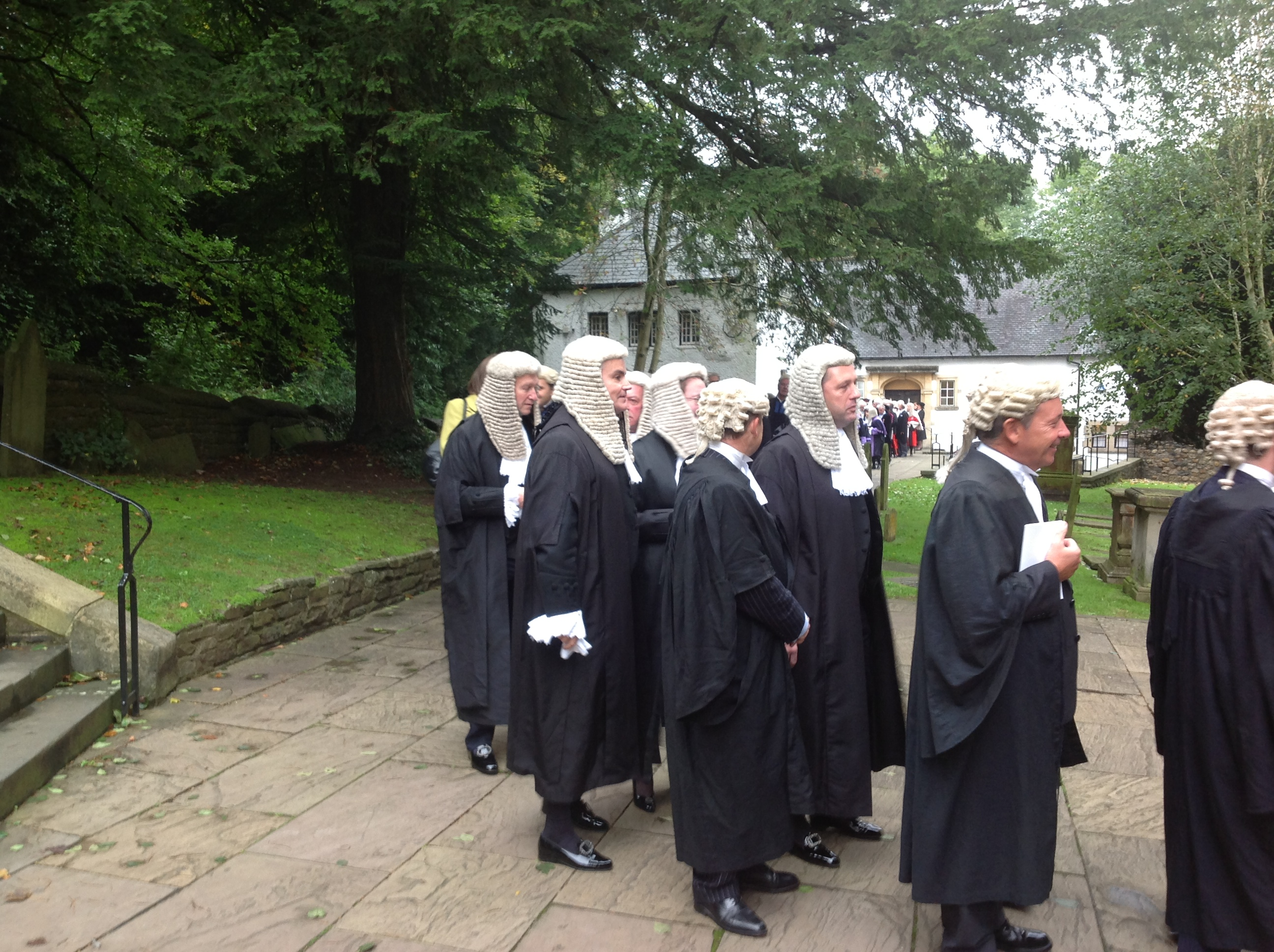 The Legal Service for Wales at Llandaff Cathedral 13th October 2013